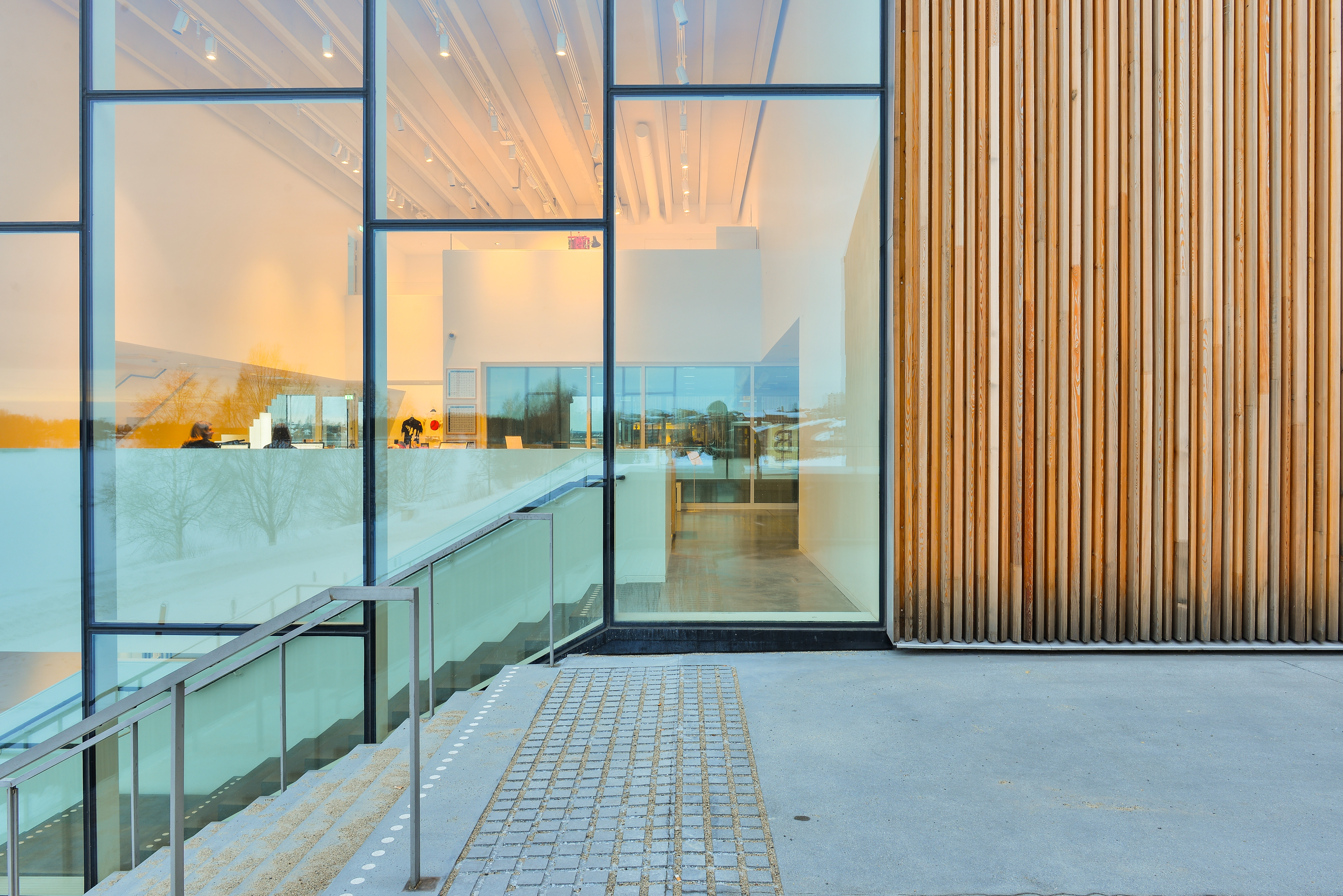 Bildmuseet is a public institution for contemporary art and visual culture in Umeå, Västerbotten, Sverige. The building was designed by Henning Larsen Architects and its part of the new Arts Campus in Umeå.